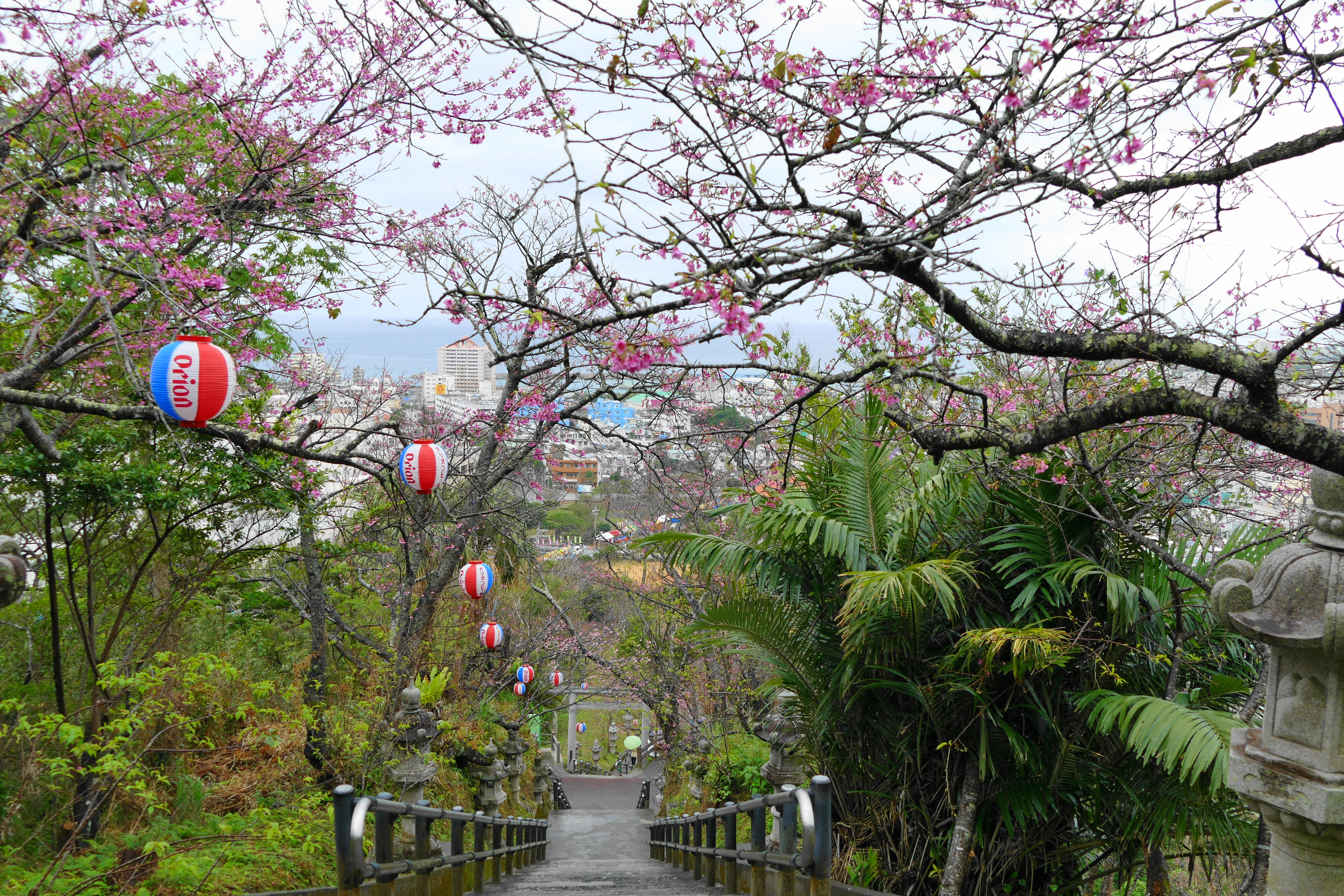 Nago-jyo Park(Japan's Top 100 famous place of cherry trees),Okinawa prefecture,Japan